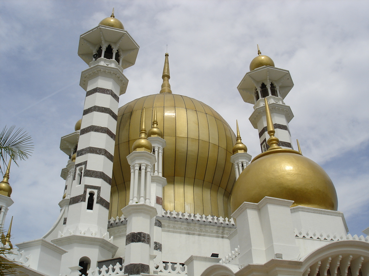 Ubudiah Mosque, Masjid Ubudiah is Perak's royal mosque